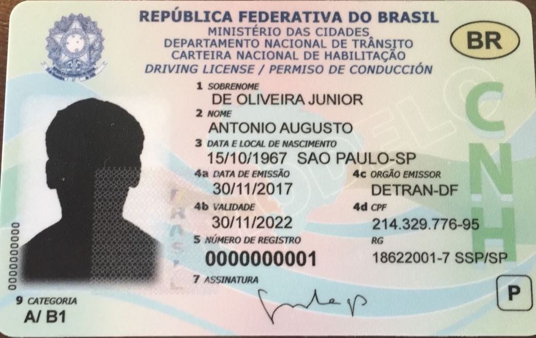 New Brazilian National Driving Licence.